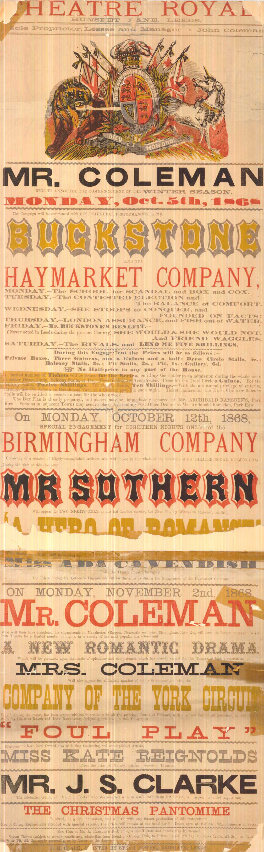 1868 Playbill for the Royal Theatre, Leeds, West Yorkshire, England.